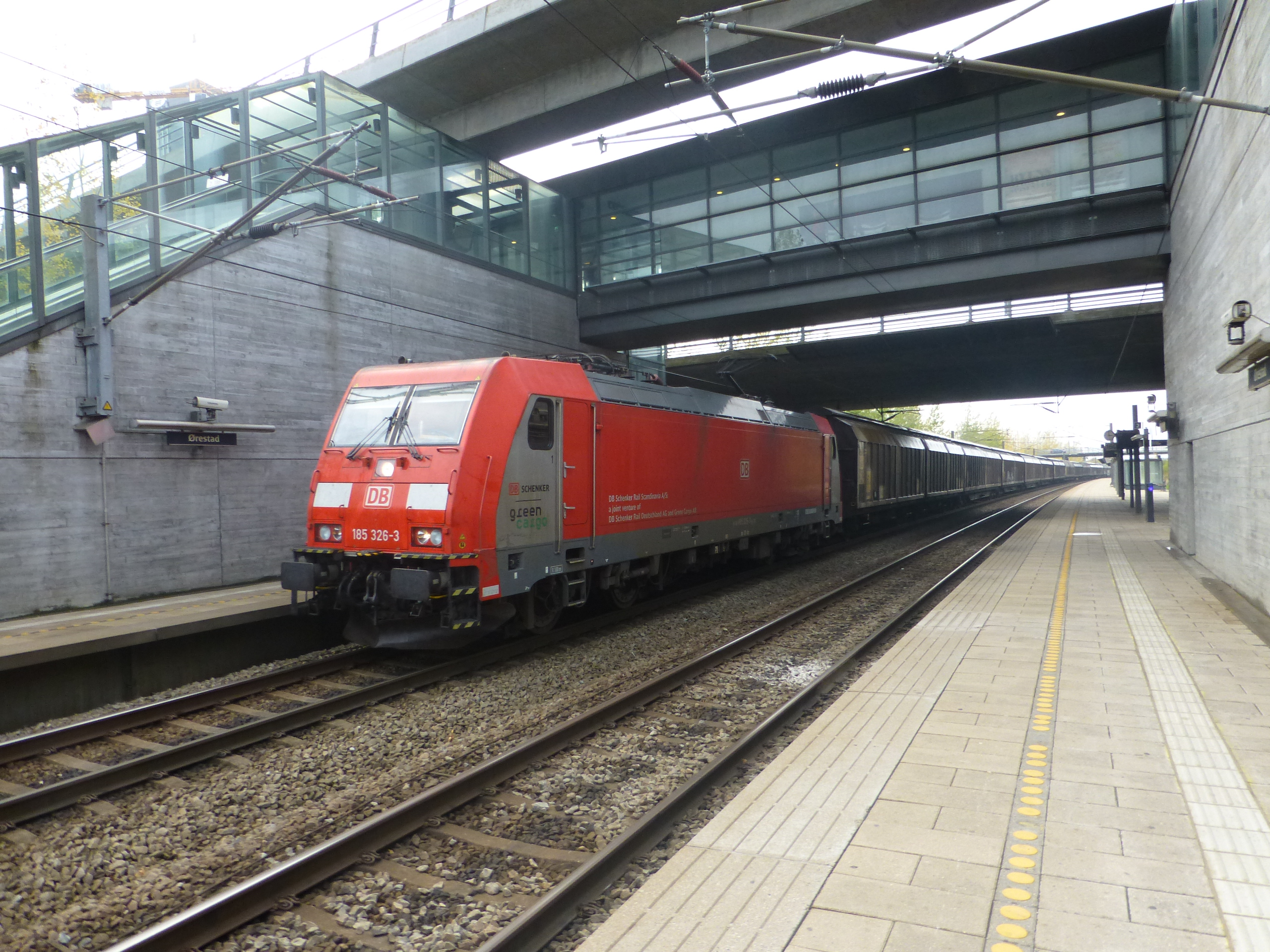 German locomotive DB 185 326-3 with freight train at Ørestad Station in Copenhagen.